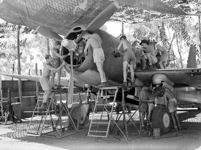 Batchelor, NT. 25 April 1943. Maintenance crew at work servicing a Vultee Vengeance dive bomber aircraft of No. 12 Squadron RAAF under a camouflage net.